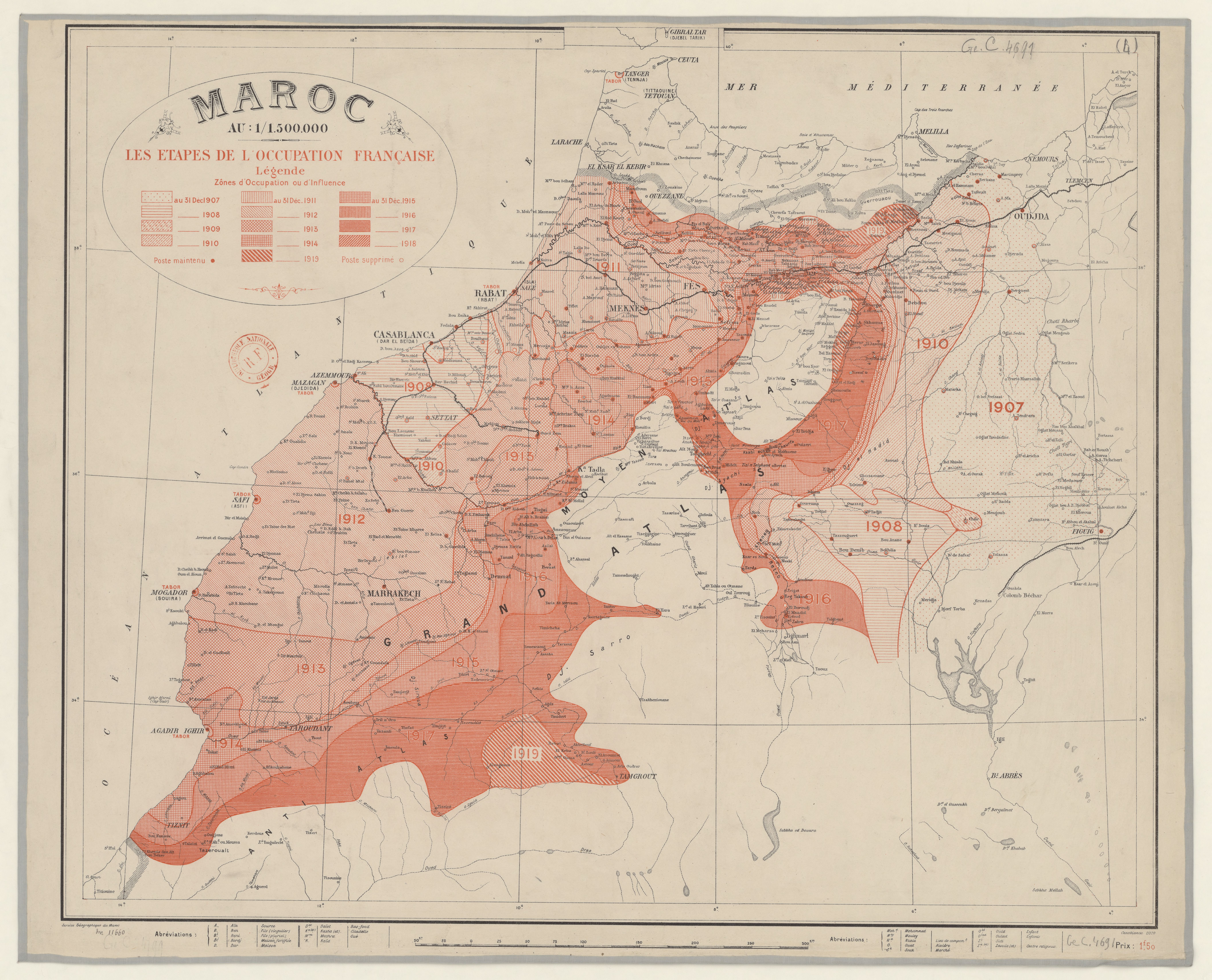 "Maroc au : 1/1.500.000. Les étapes de l'occupation française " Service Géographique du Maroc (Casablanca) 1920 55 x 65 cm